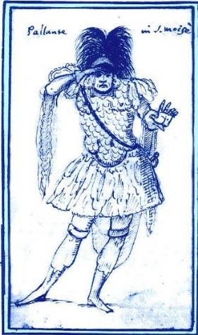 Caricature of the opera singer Giuseppe Maria Boschi in a representation of Pallante at Teatro San Moisè in Venice.